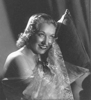 Chola Bosch- actriz argentina